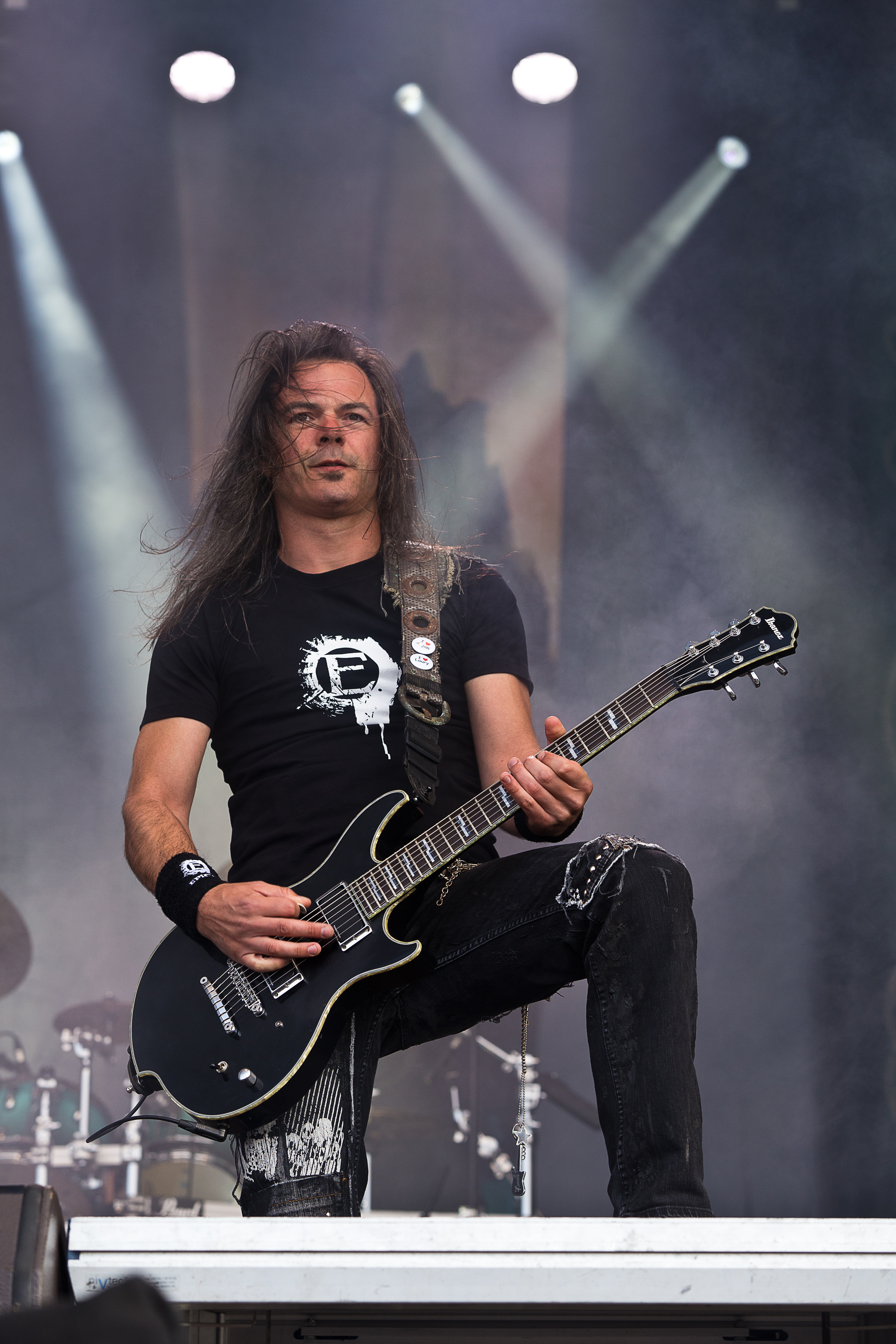 The Dutch symphonic metal band Epica at the Rockharz Open Air 2015 in Ballenstedt/Germany.